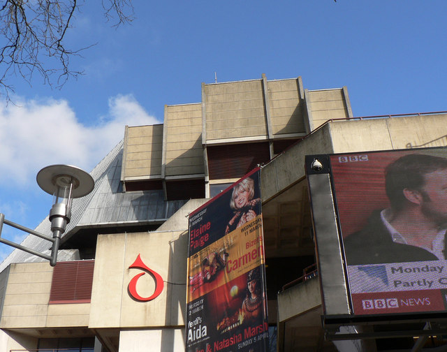 Roof line, St David's Hall, Cardiff.